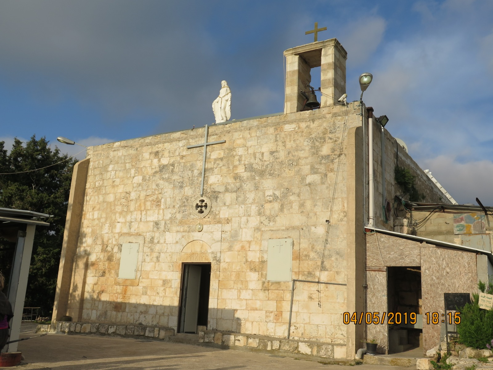 This church is the only building left from a ruined christian palestinian village called in the same name